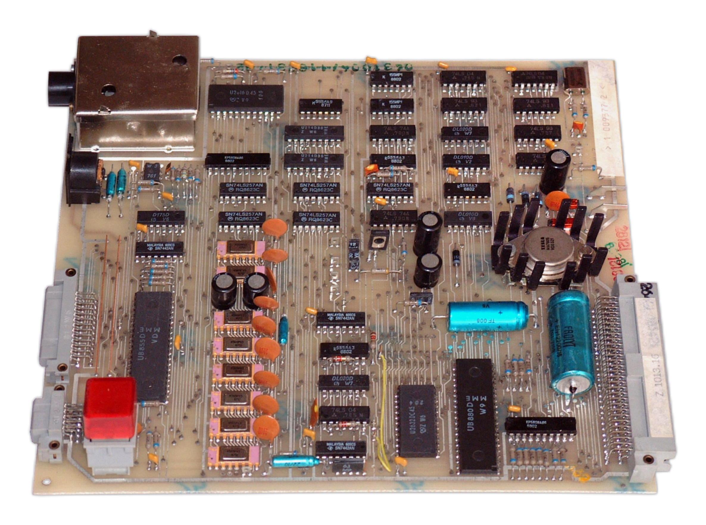 Robotron Z1013 motherboard